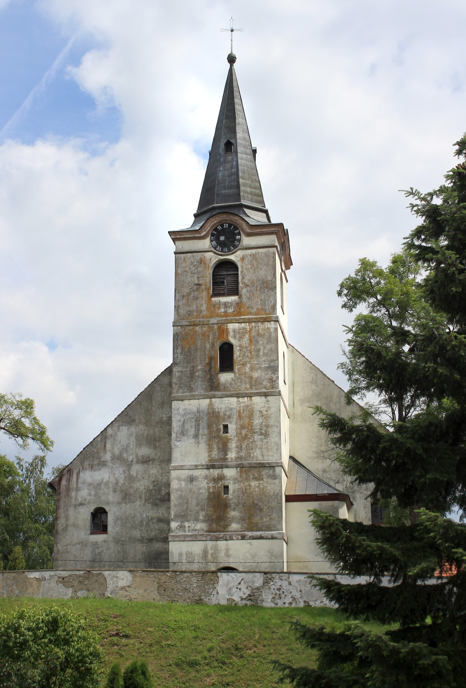 Church in Lodhéřov, Czech Republic.